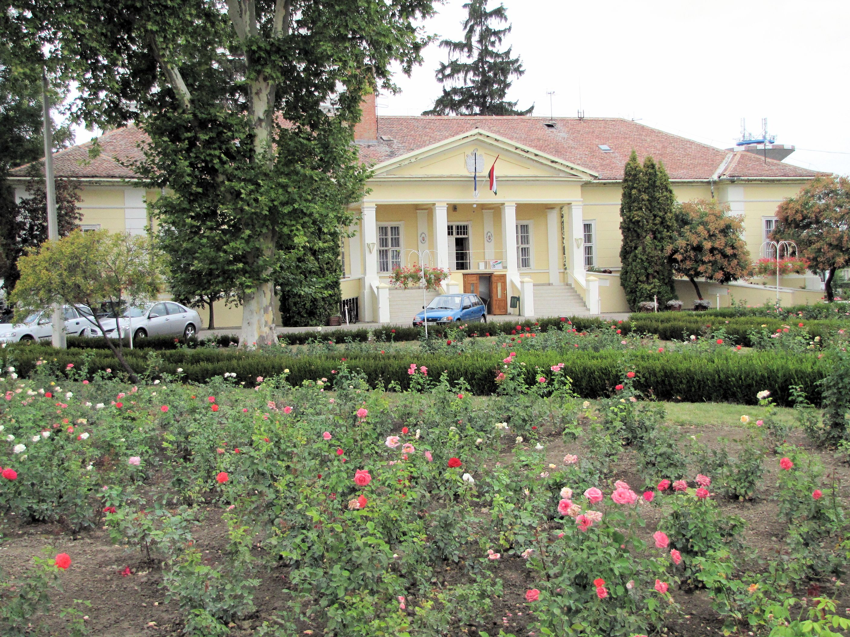 City Hall, Kunhegyes, Hungary